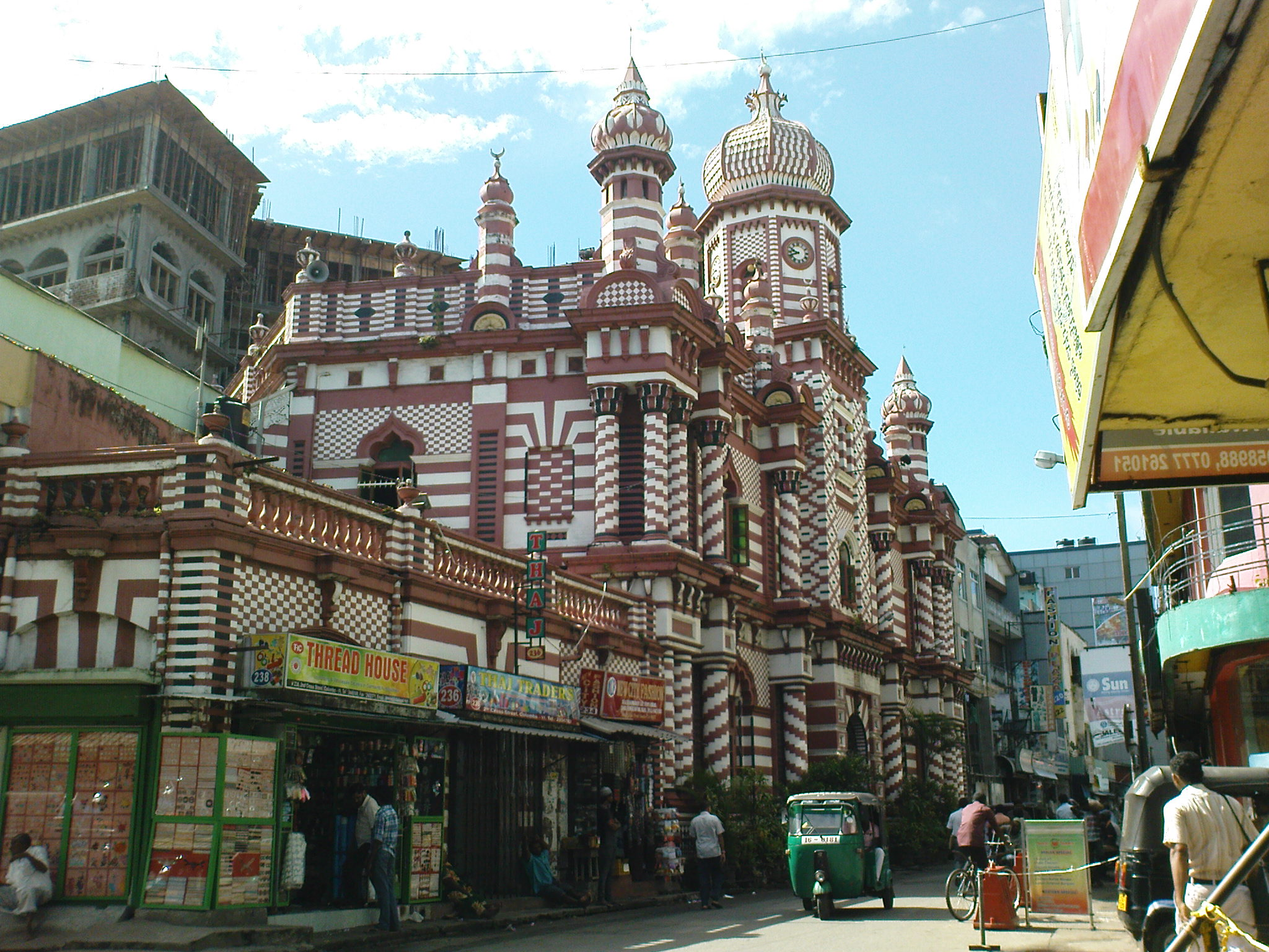 The Jami Ul Alfar Jummah mosque in Colombo 11, Pettah business area is one of the oldest mosques in Sri Lanka. Because of its unique and beautiful architecture it is one of the landmark buildings in Colombo city. During early 1900s sailers in ships that called at Colombo Port use to identify the port using this mosque building. This mosque is also referred as Second Cross Street Mosque.